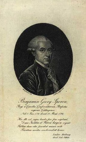 Benjamin Georg Sporon (1741-1796), Danish royal secretary, poet, and district officer